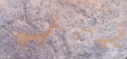 Rock art in Gemigaya (Near Ordubad, Azerbaijan)